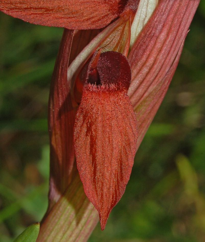 Serapias vomeracea - Genova, Italy